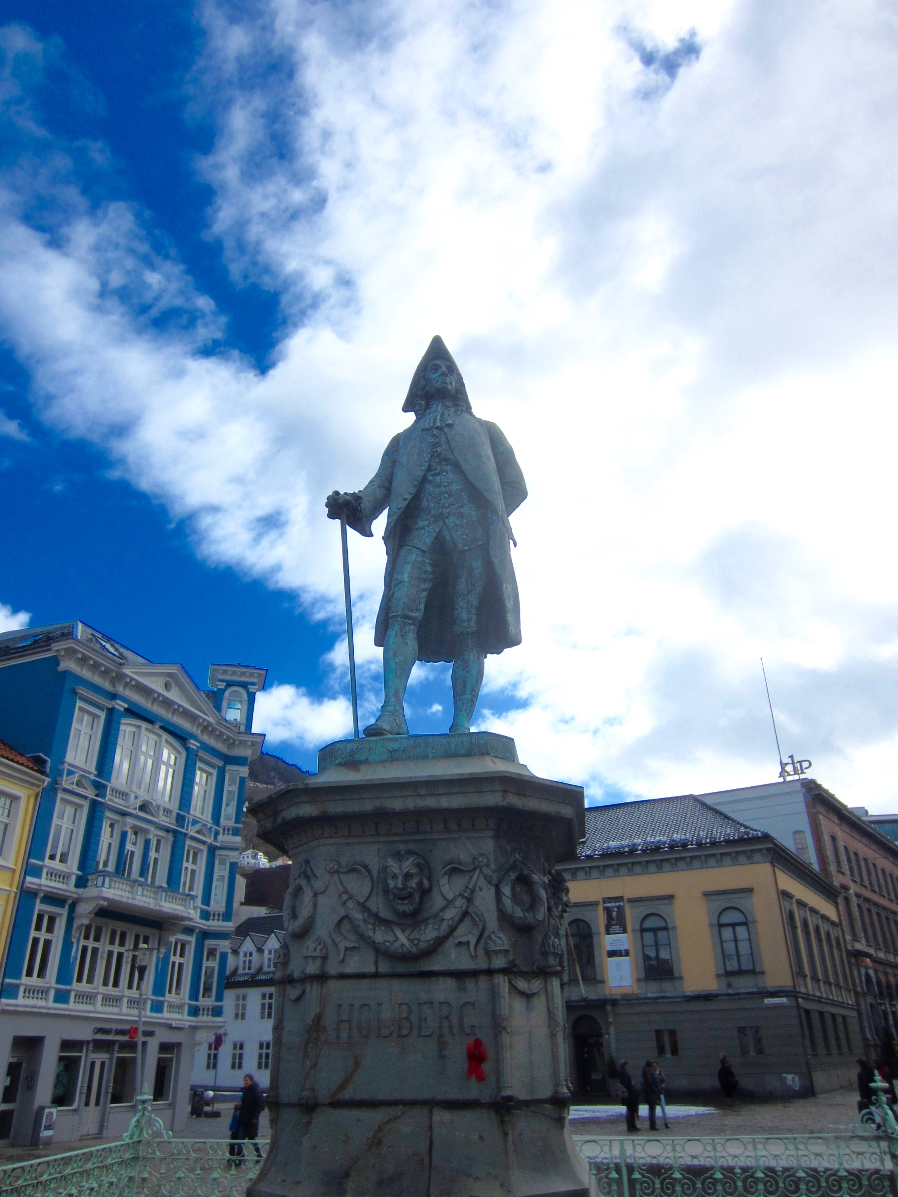 Ludvig Holberg in Bergen at Vågsallmenningen . Statue in bronze from 1881 by professor John Börjeson.